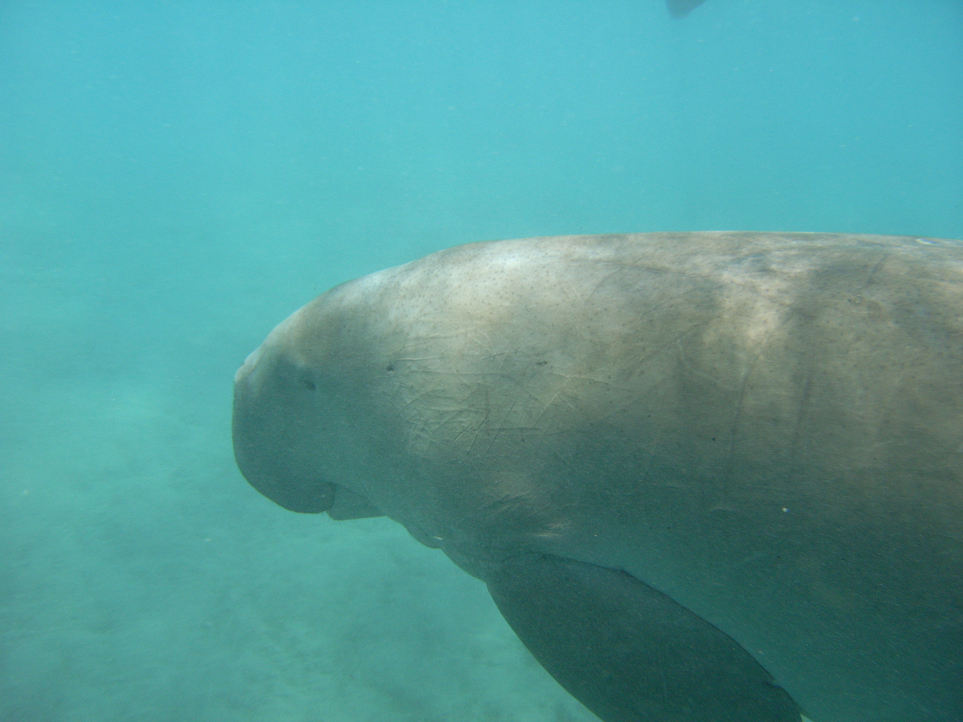 Profile shot of Dugong dugon, Abu Dabab Beach (Marsa Murena), Marsa Alam, Egypt